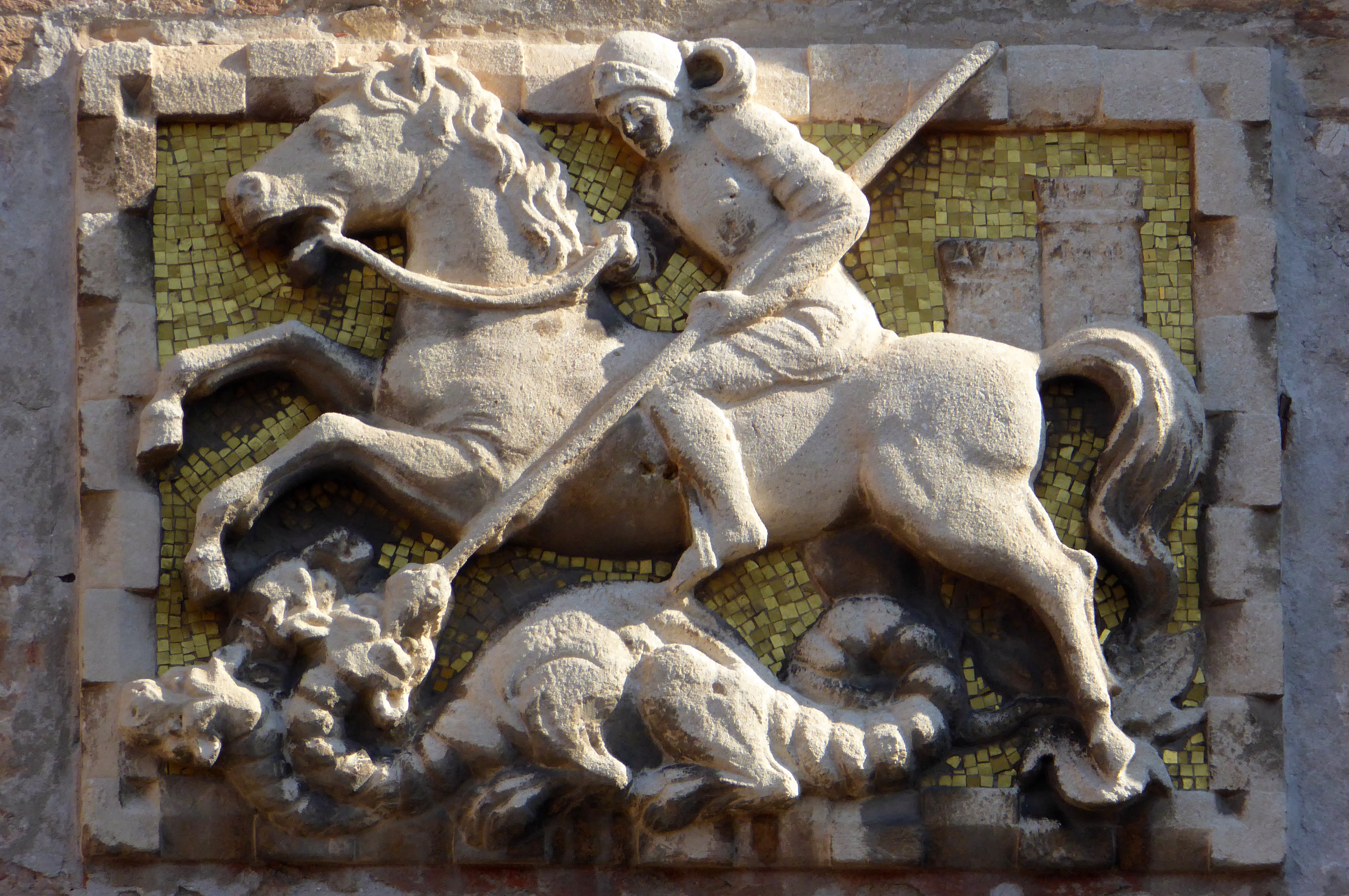 Detail of an engraving, likely of Theodore of Amasea (or possible Saint George) slaying a dragon, located on a building in the Campiello dell'Anconeta, Cannaregio, Venice.